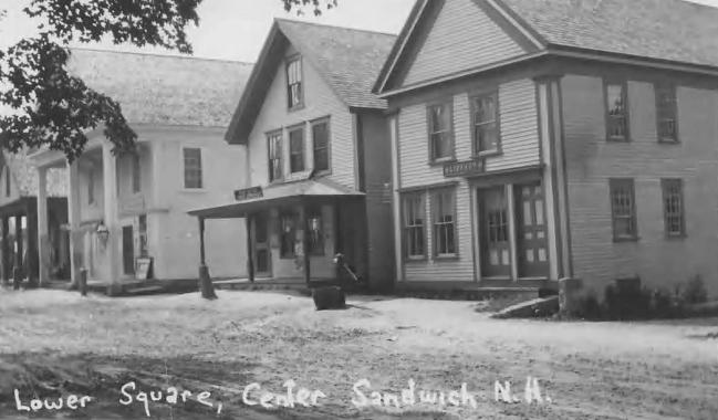 Lower Square in c. 1910, Center Sandwich, NH; from an old postcard.